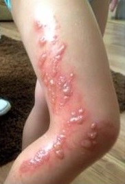 Hautreaktion nach Kontakt mit Riesen-Bärenklau